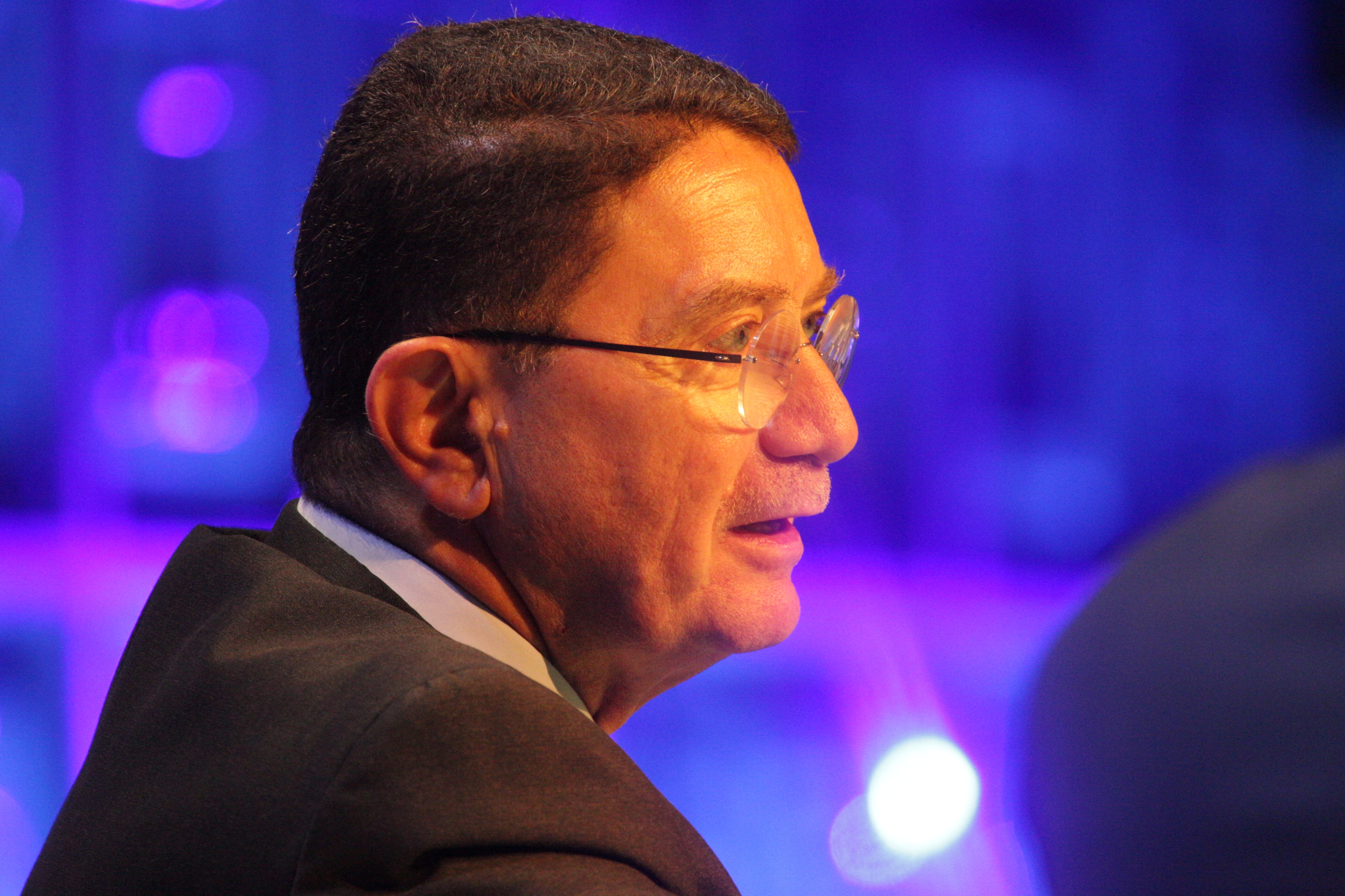 WTTC Global Summit 2015 World Travel & Tourism Council Flickr images